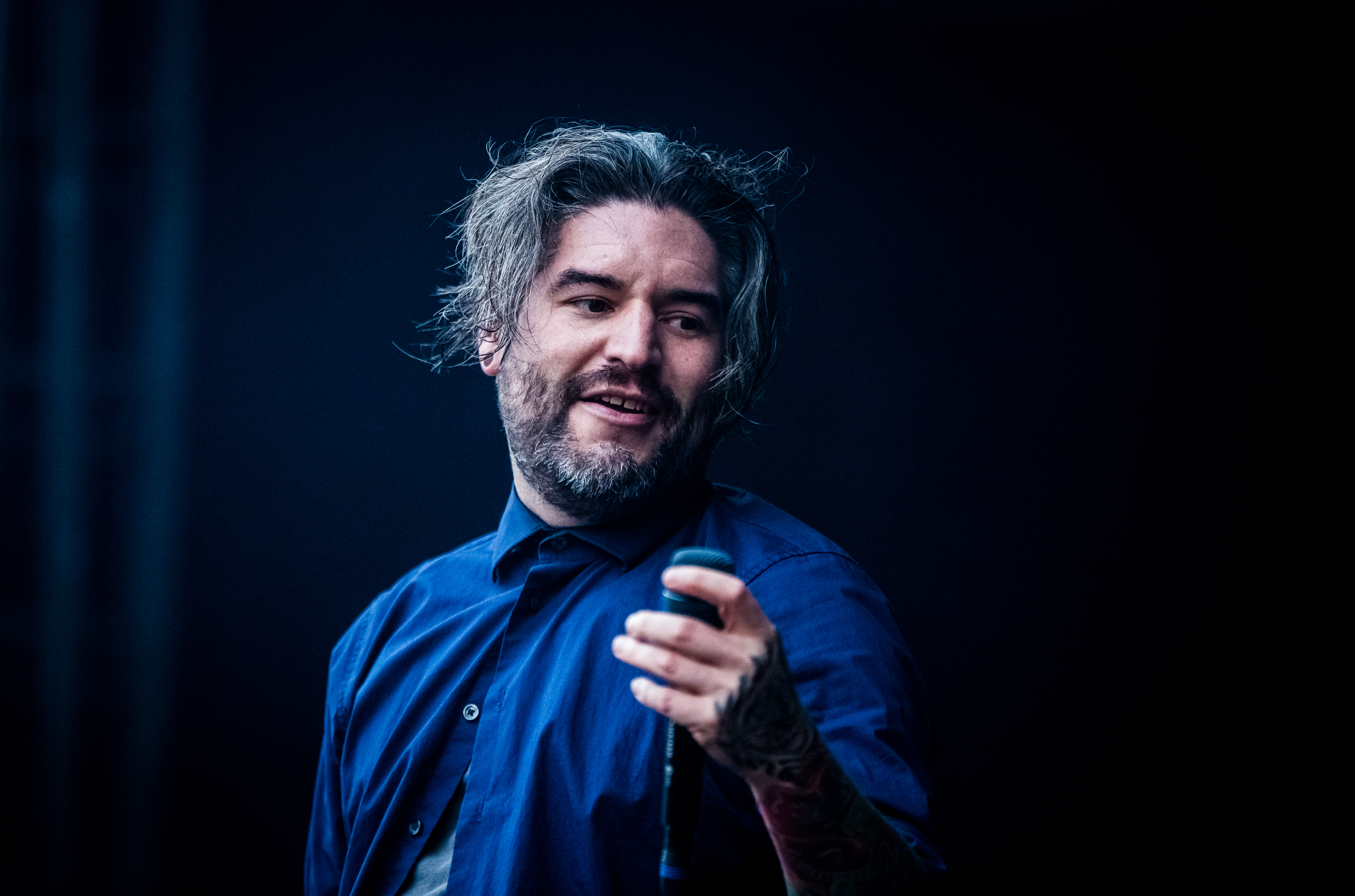 Suicide Silence - Rock am Ring 2017